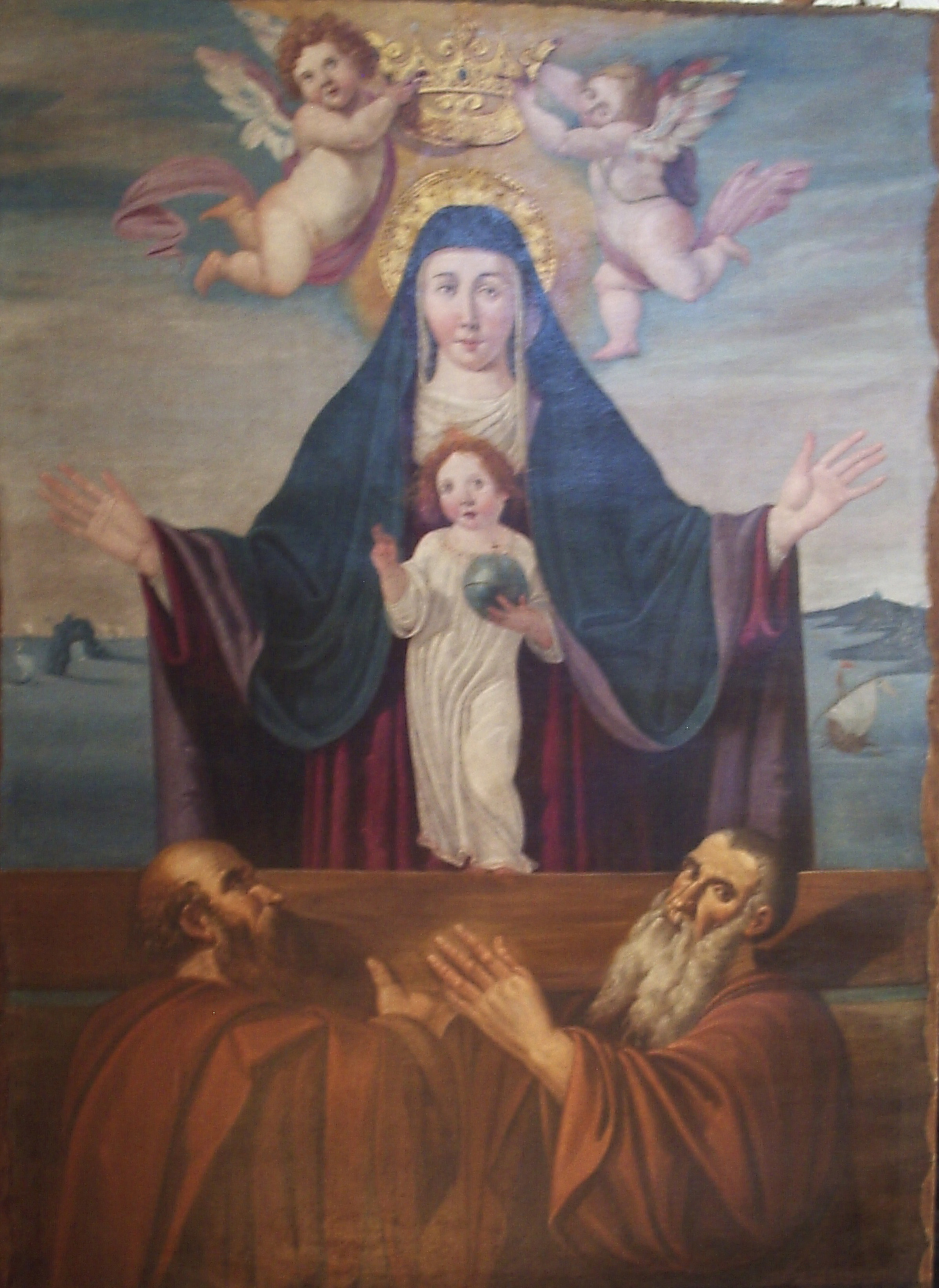 Painting of the Madonna of Constantinople, preserved in the Church of St. John off of Nepi